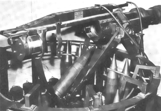 AAI Corp. fully automatic loader.